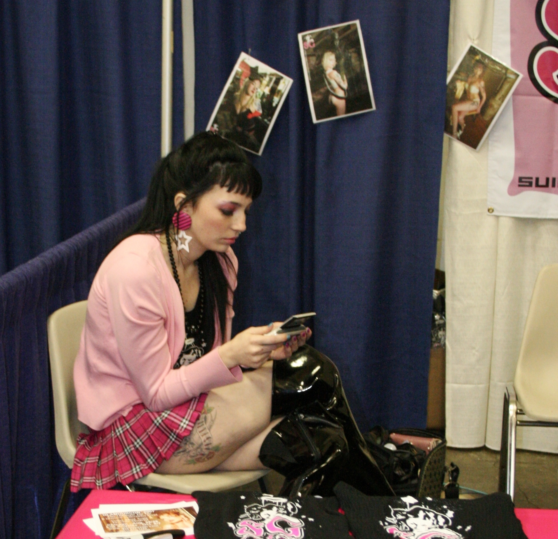 Emo Chic